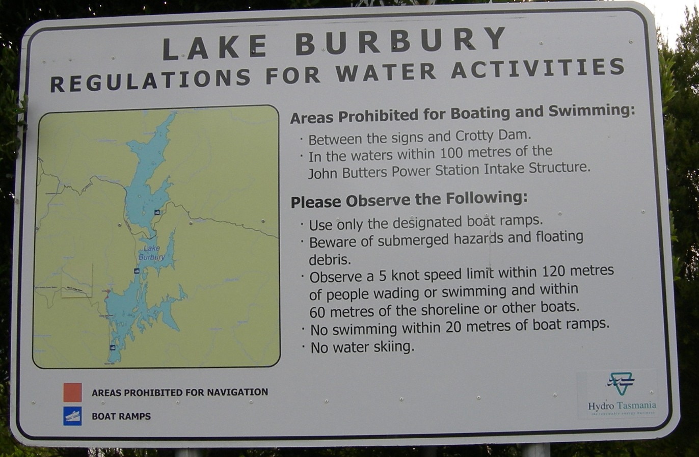 Lake Burbury, West Coast Tasmania - HEC regulations sign regarding boating and swimming